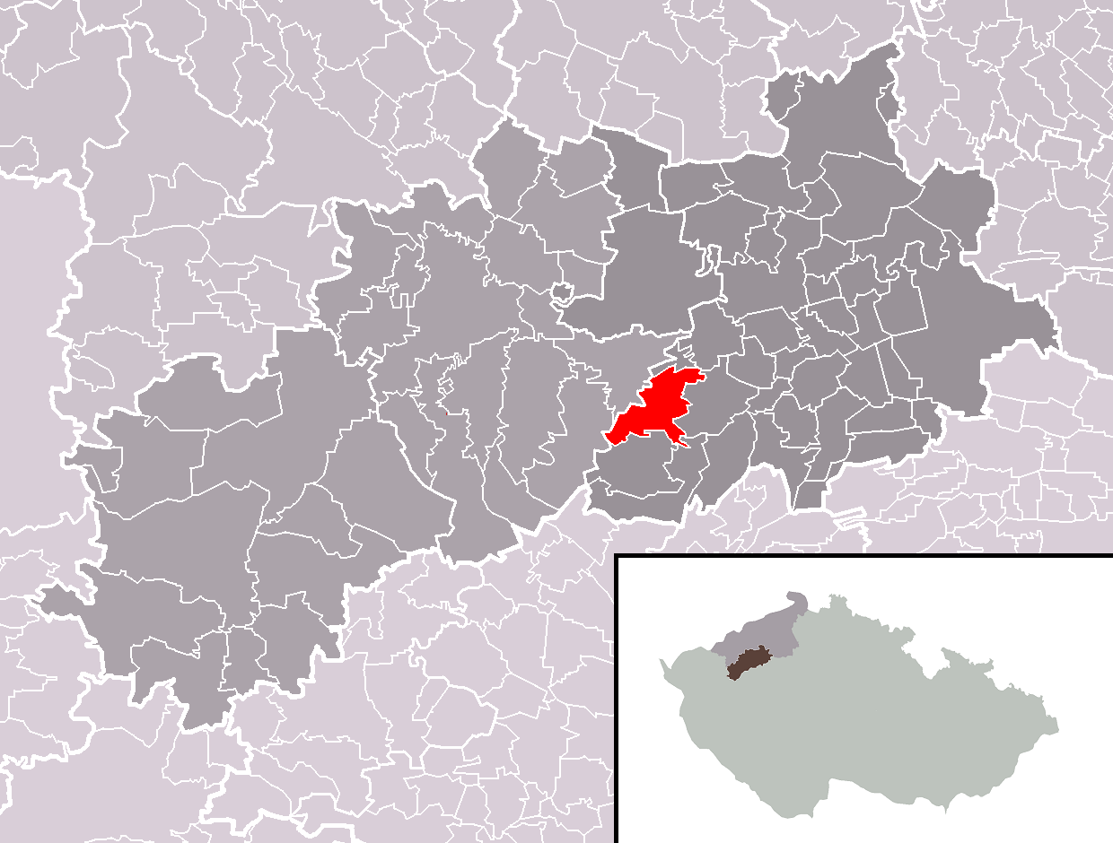 Location of Hřivice municipality within Louny District and administrative area of Louny as a Municipality with Extended Competence.